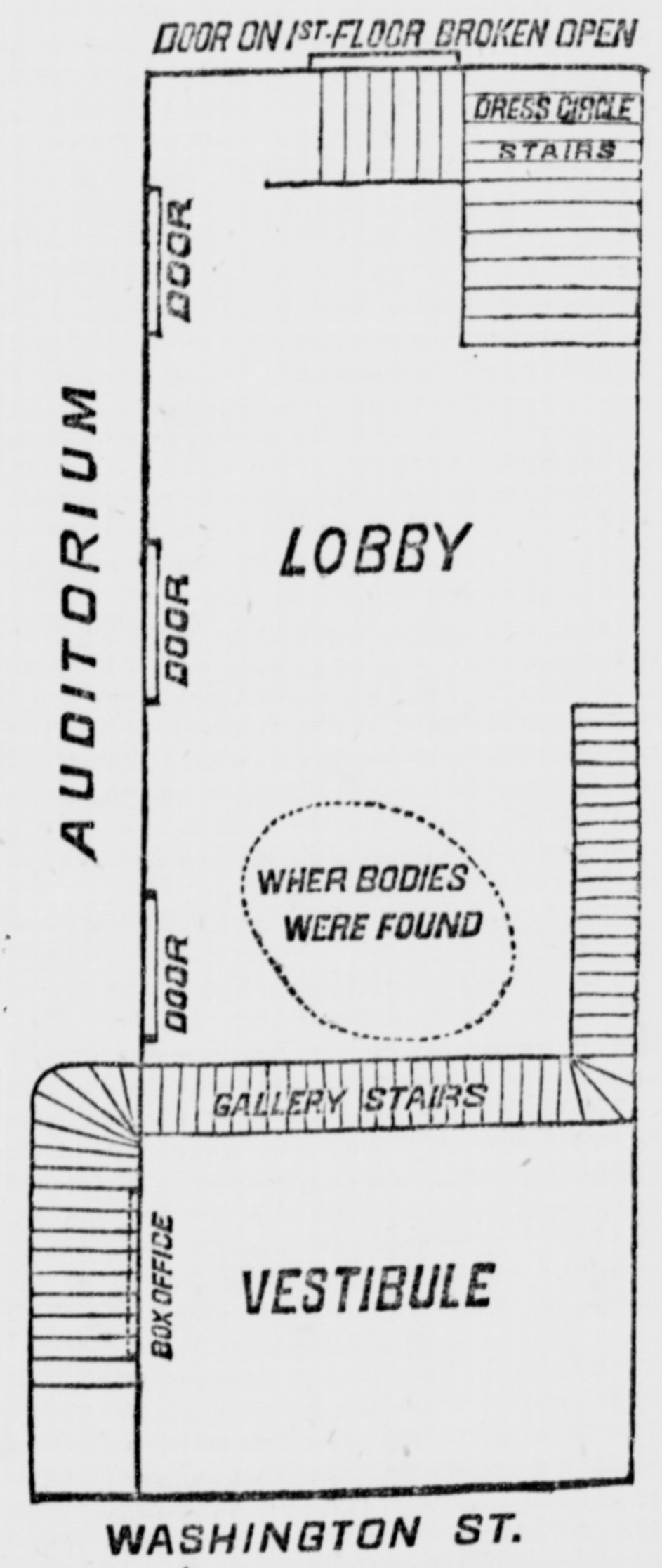 New York Tribune Thursday, December 07, 1876 Vol. XXXVI No., 11,136 Page 1. This is a detail of the vestibule and lobby showing the arrangement of stairs to the upper galleries. Note that this diagram is rotated counter-clockwise 90 degrees with respect to Plan 1.